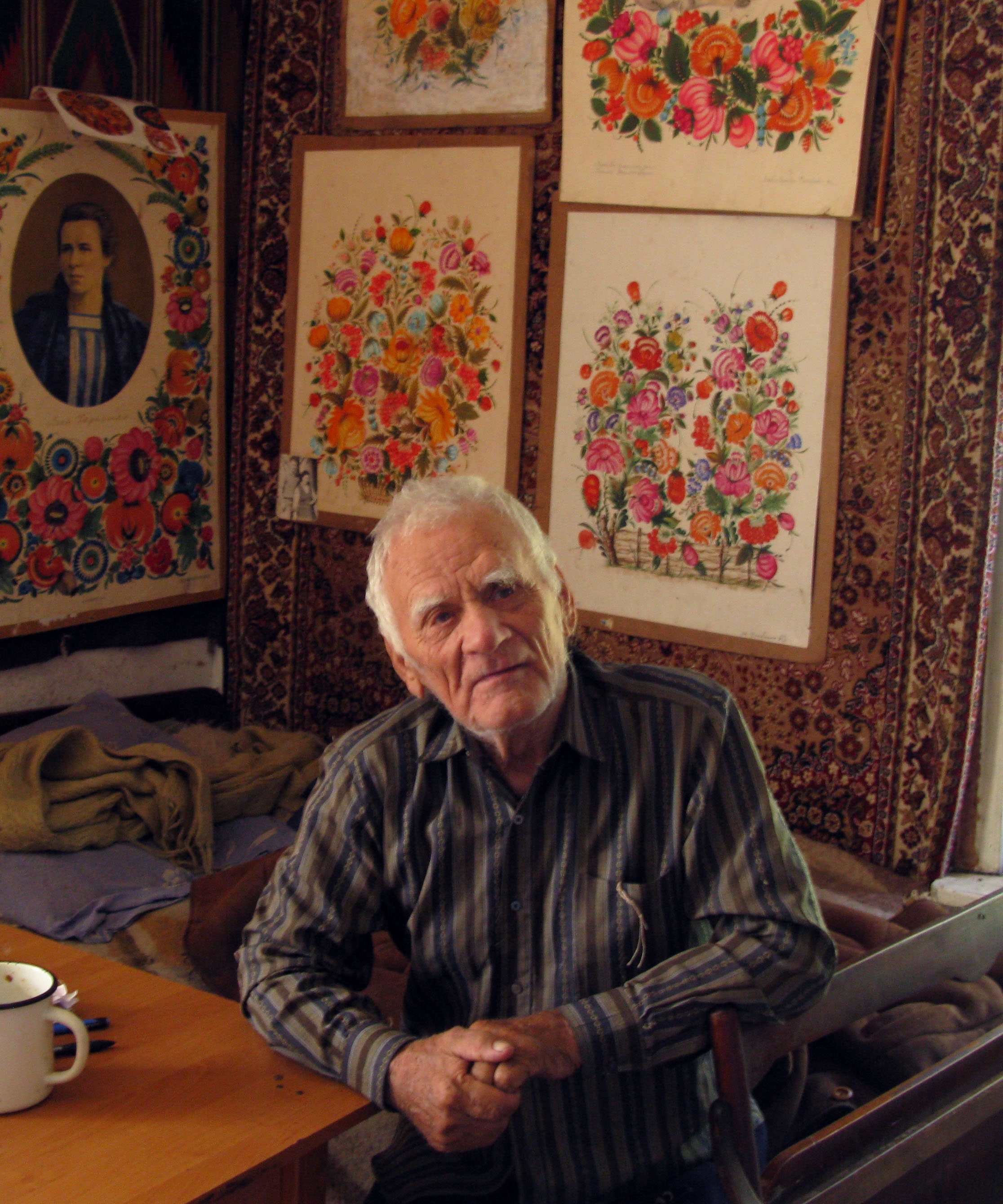 Vasyl Sokolenko, famous petrykivka painting artist, Petrykivka